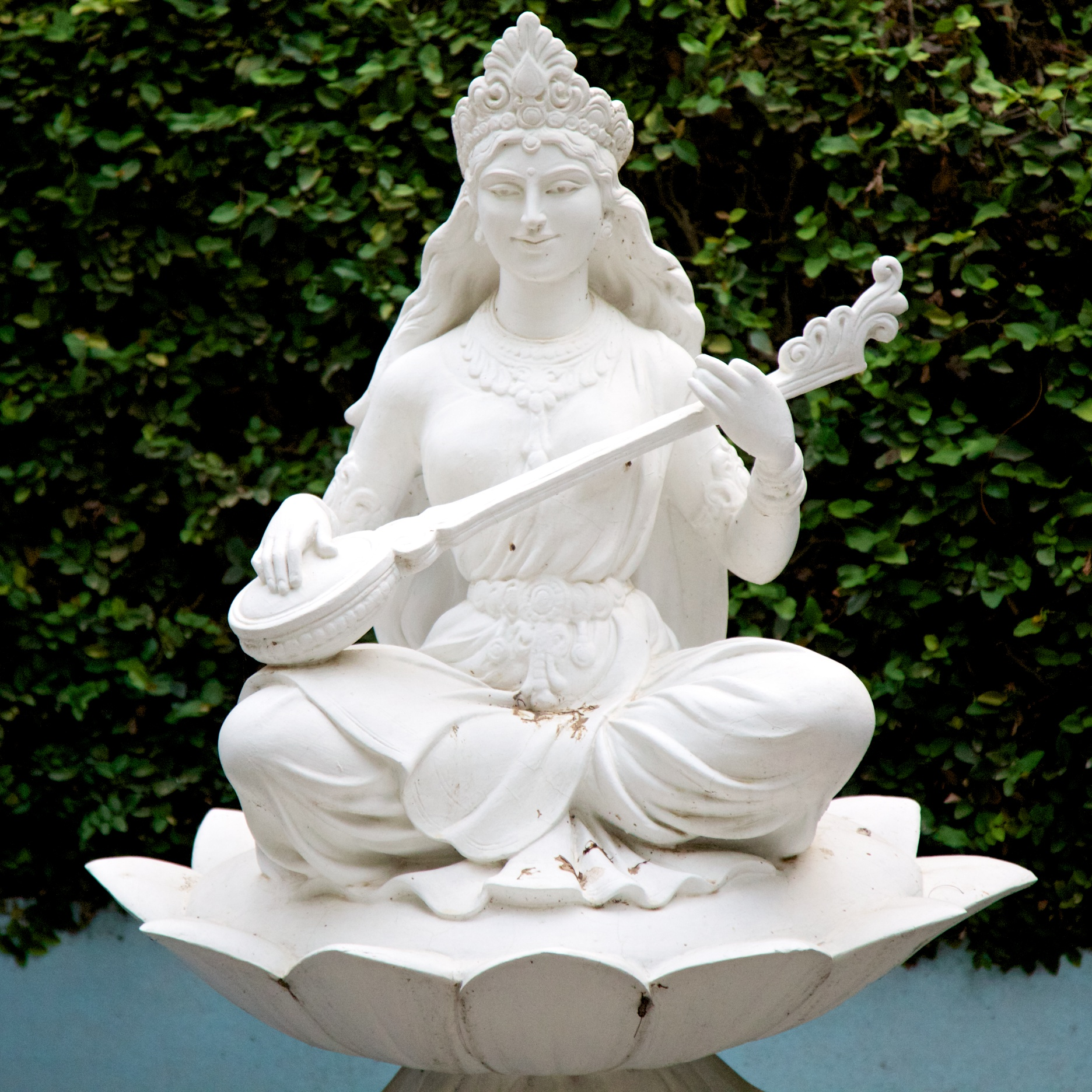 Sarasvati Hindu goddess of knowledge, wisdom, learning